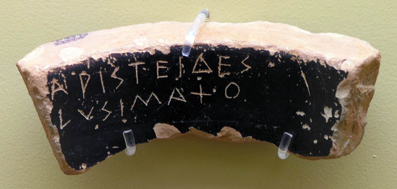 Ostracon bearing the name of Aristides, 483-482 BC. Ancient Agora Museum in Athens.